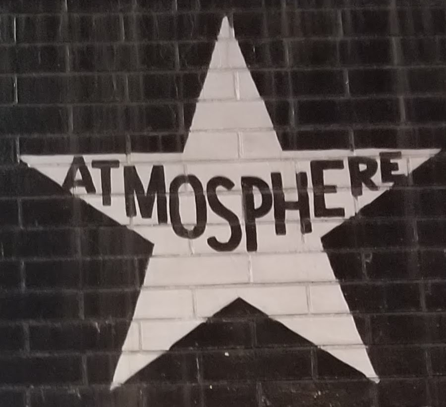 Star representing the musical group Atmosphere on the outside mural of the Minneapolis nightclub First Avenue